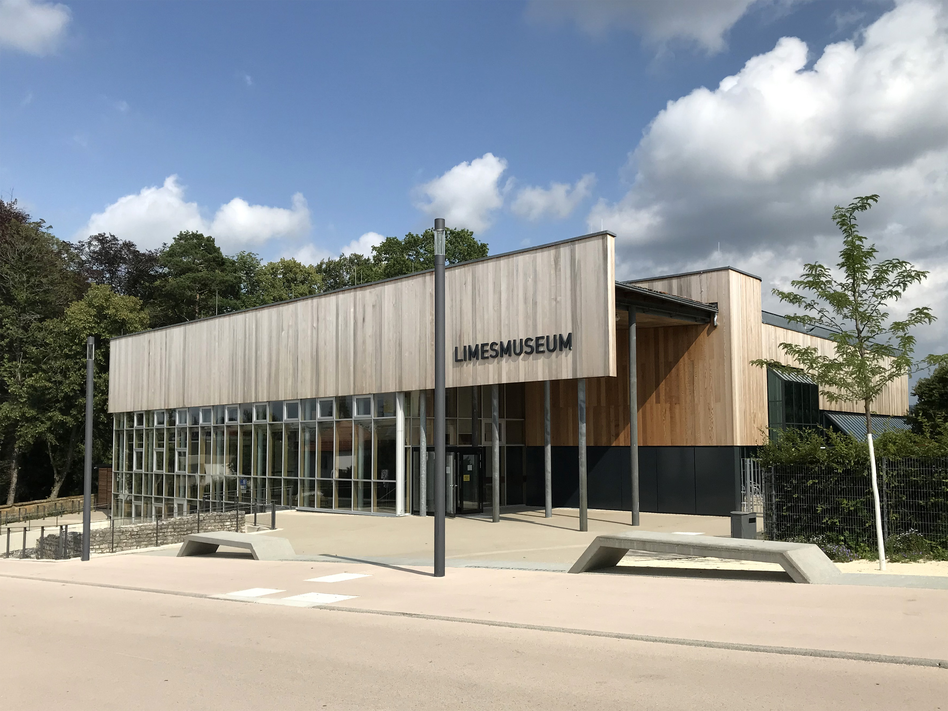 Limesmuseum in Aalen after renovation in 2019